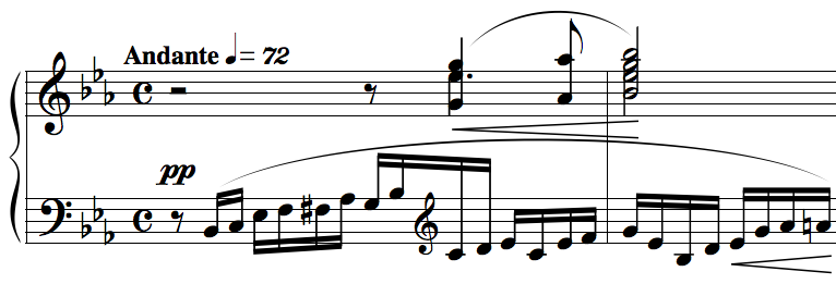 The first few measures of Preludes, Op. 23, No. 6. The set, composed by Sergei Rachmaninoff in 1901 was published before 1923, and thus is in the public domain.